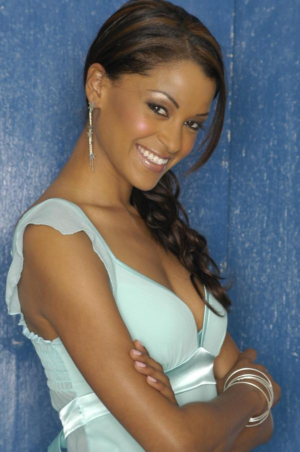 American model/actress Claudia Jordan in 2009. Image released by her PR representation, Convergent Media, under an acceptable free licence.